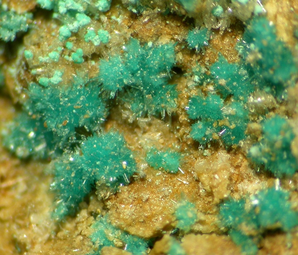 Niedermayrite Locality: Hidden Treasure Mine (Sacramento; Chicago), Ophir Hill area, Ophir District, Oquirrh Mountains, Tooele County, Utah, USA Bright blue-green groups of niedermayrite crystals. Analyzed by SEM/XRD. Field of view 5 mm. Specimen and photo Leon Hupperichs.